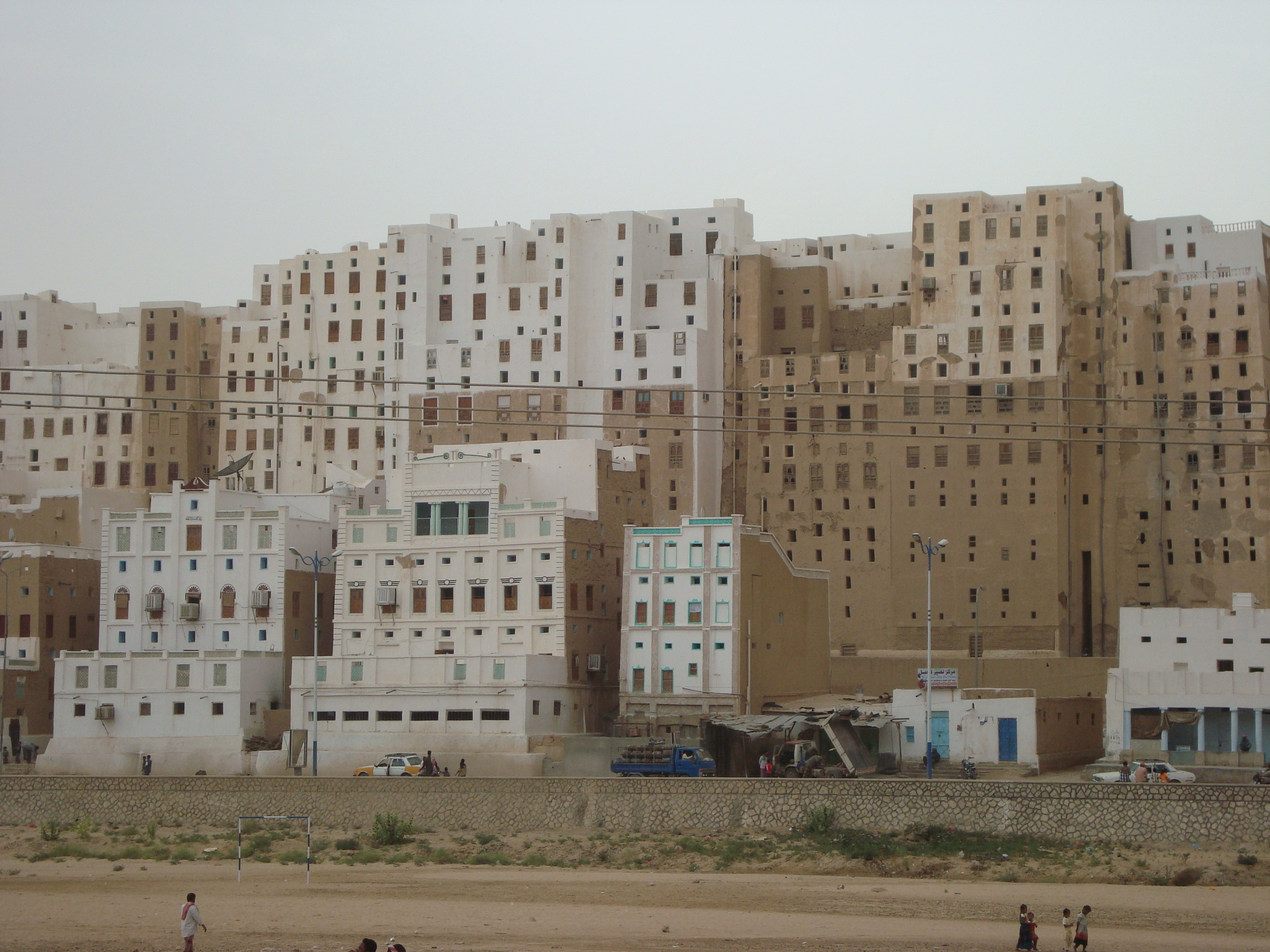 The historic city of Shibam